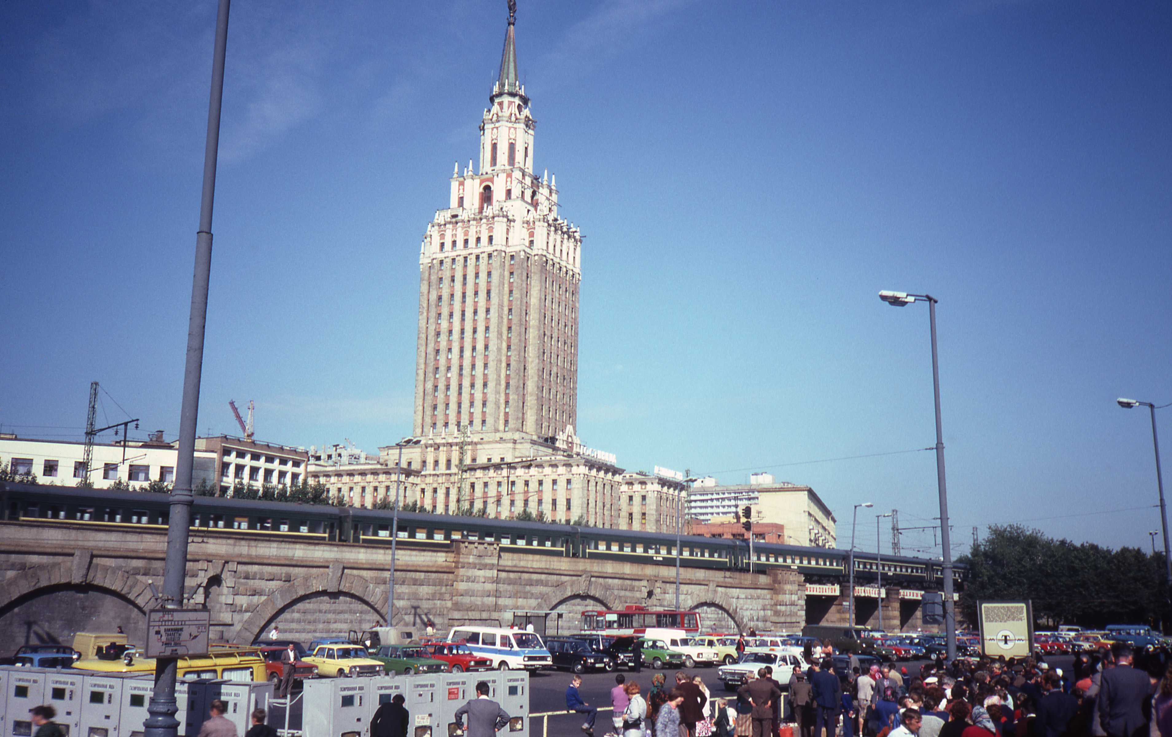 Sovjet sleeper train before an Moscow skycraper. // The Alekseevskaya local railway line serves as a hub connecting outgoing lines. Here, passenger railcars are moved north from Kursky terminal (this was, most certainly, not a scheduled revenue train).